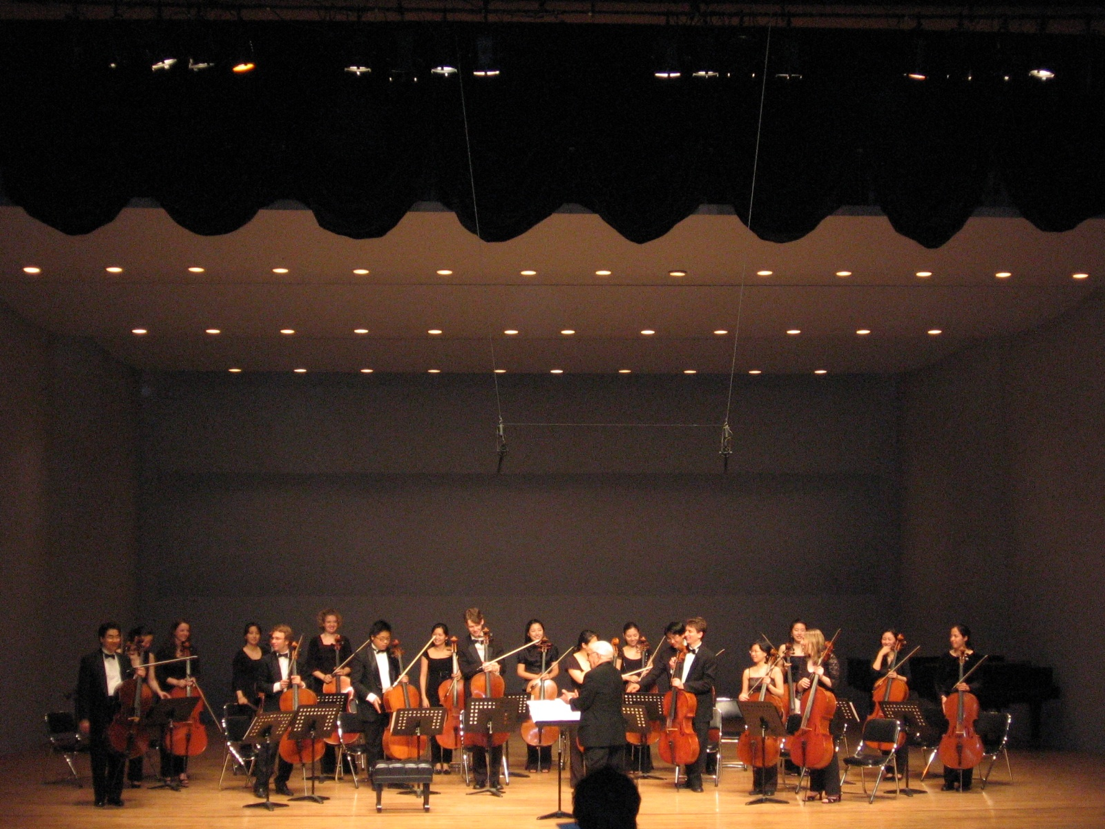 Photograph of the Yale Cellos performance during South Korean tour, 2005